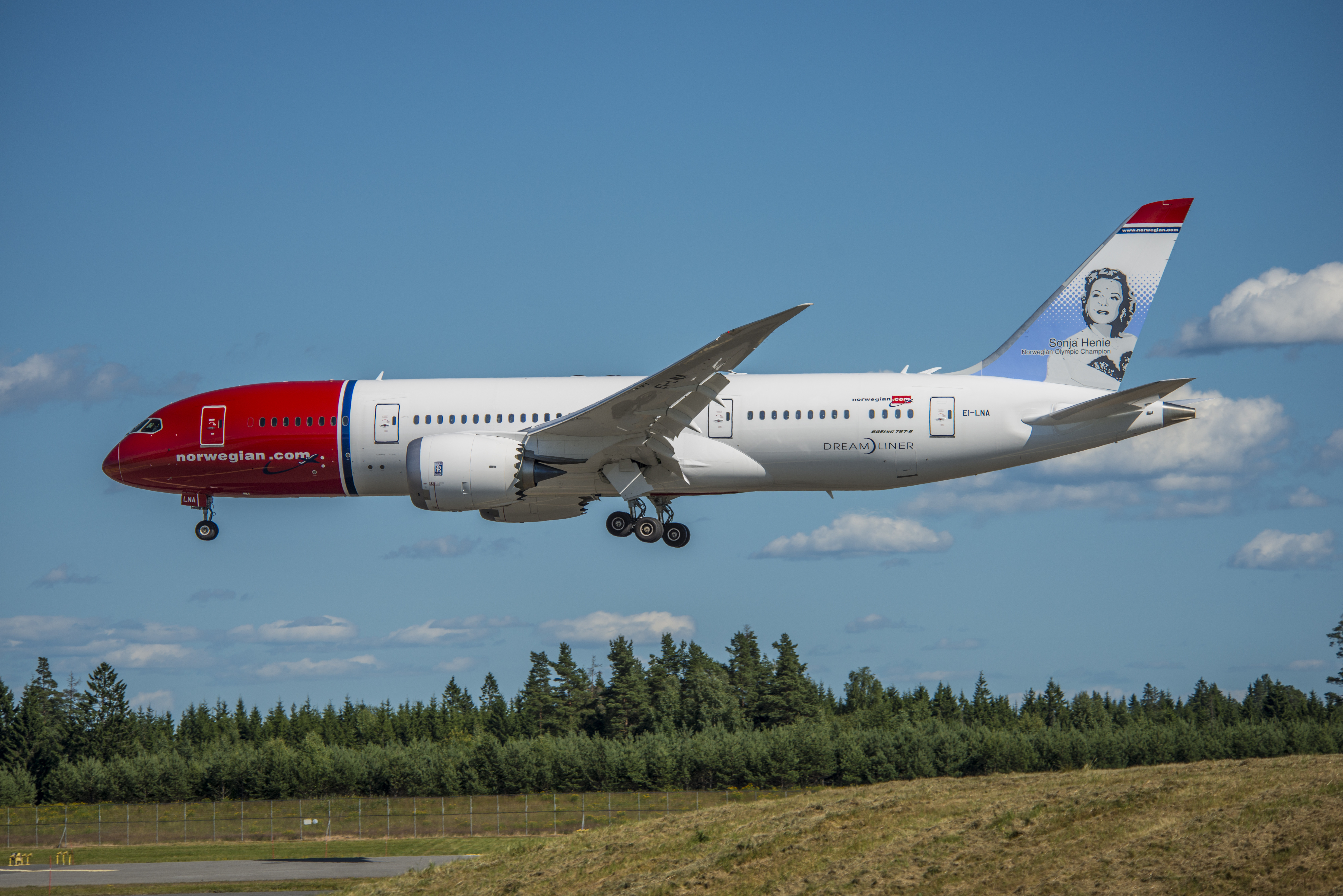 Boeing 787 of Norwegian landing at OSL